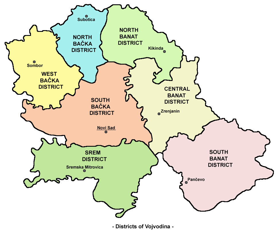 map of districts in Vojvodina